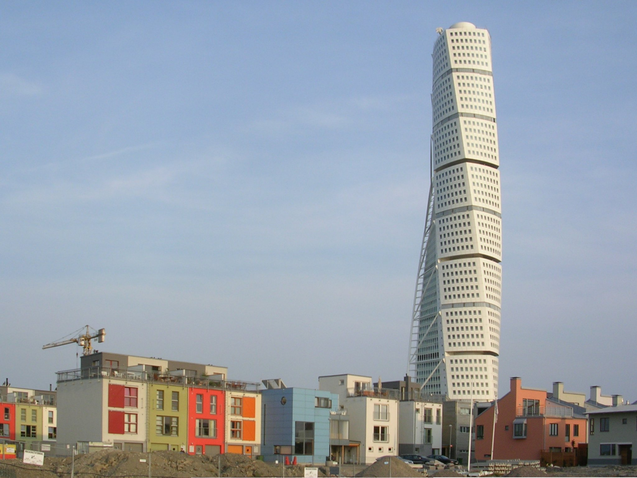 Bo01 in Malmö, and Turning Torso designed by Santiago Calatrava, the tallest skyscraper in Scandinavia. Date: September 2001 Author: Väsk